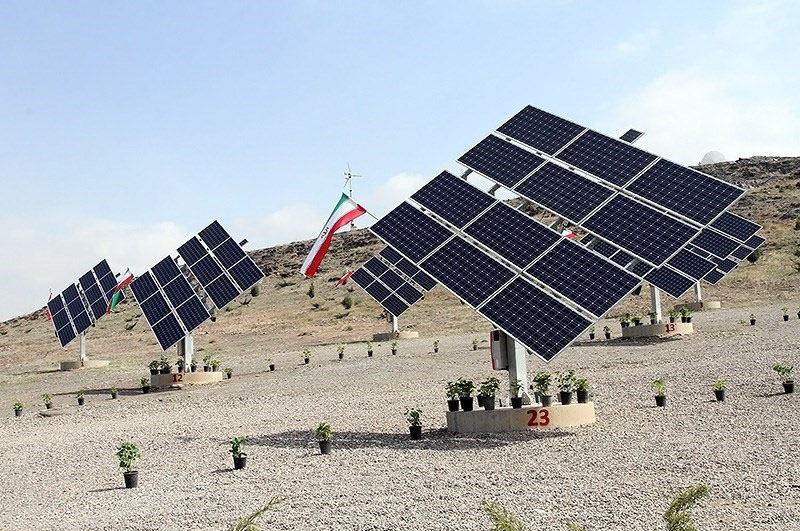 Mashhad Solar Power Plant